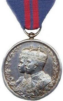 Delhi Durbar Medal 1911, obverse - commemorative medal